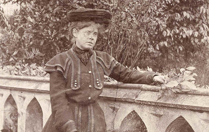 Alice Milligan (4 September 1865 in Omagh– 13 April 1953 in Omagh)[1] was an Irish nationalist poet and writer, active in the Gaelic League. pic guessed at 1900